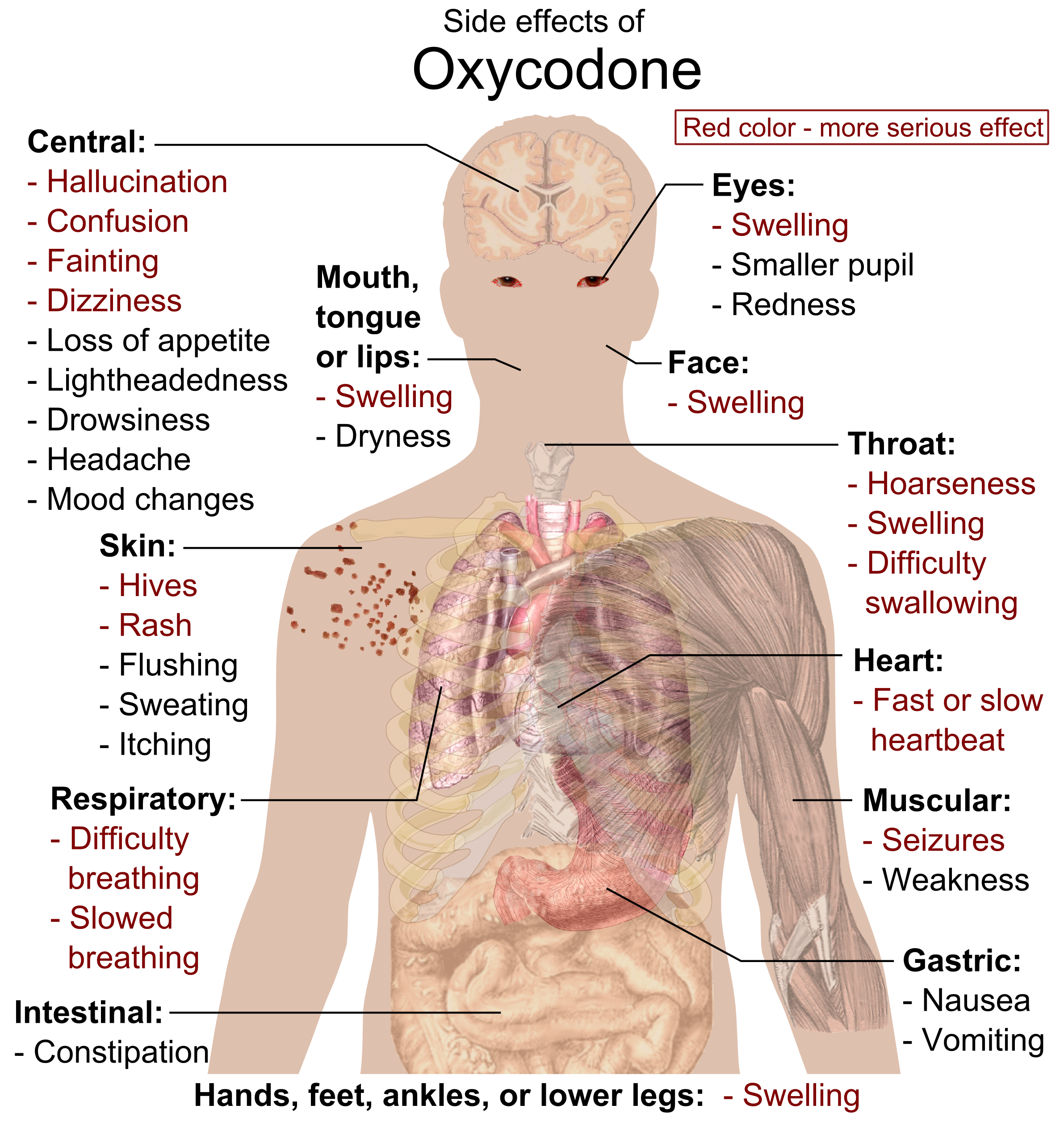 Main side effects of Oxycodone. Red color denotes more serious effects, requiring immediate contact with health provider. References: MedlinePlus (The American Society of Health-System Pharmacists) drug information: Oxycodone. Last Revised - 01/01/2008. Last Reviewed - 09/01/2008. To discuss image, please see Template talk:Human body diagrams